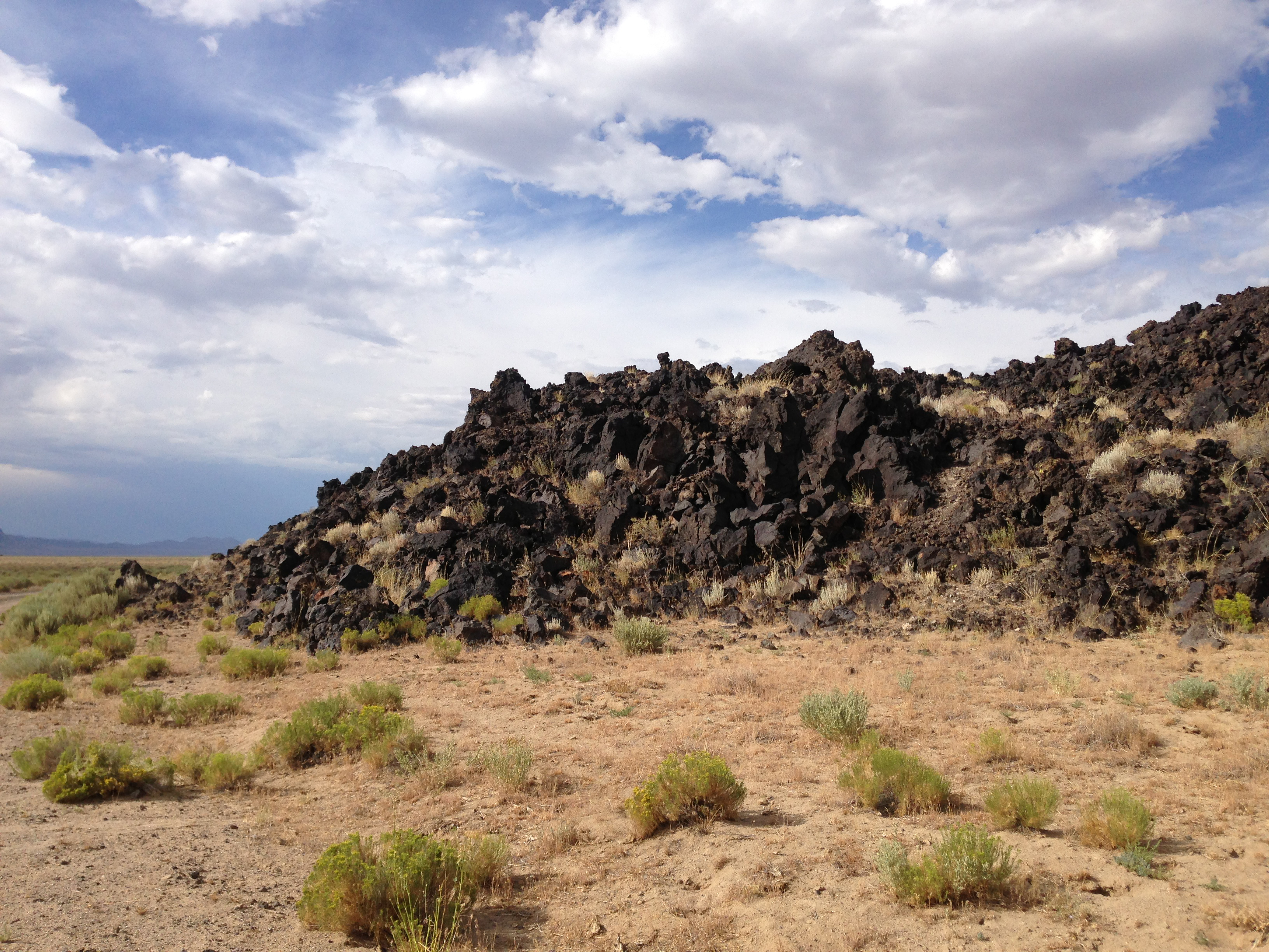 Close view of the west edge of the Black Rock Lava Flow, Nevada